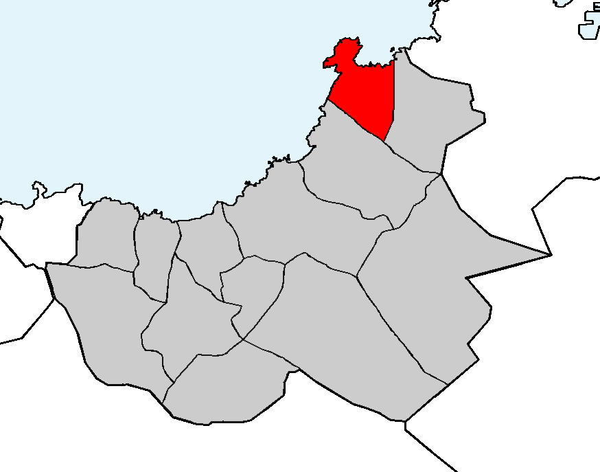 Location of the parish of Suevos in the municipality of Arteixo (Galicia, Spain)